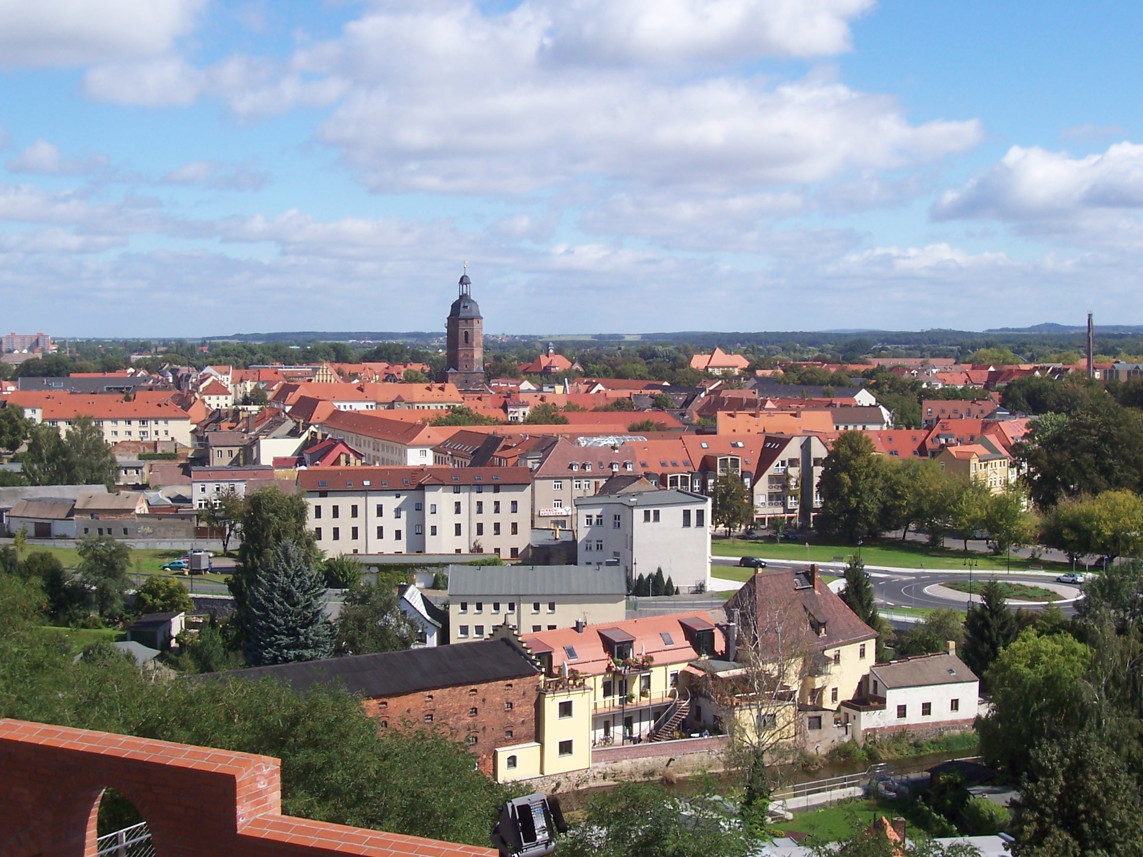 city centre of Eilenburg, seen from Eilenburg castle